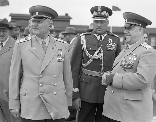 Marshal of the Soviet Union, Georgy Zhukov (right), Marshal of Poland, Konstantin Rokossovsky (center), and the Marshal of the Soviet Union, Ivan Konev (left), attend the Warsaw conference of the European countries for peace and security in Europe.